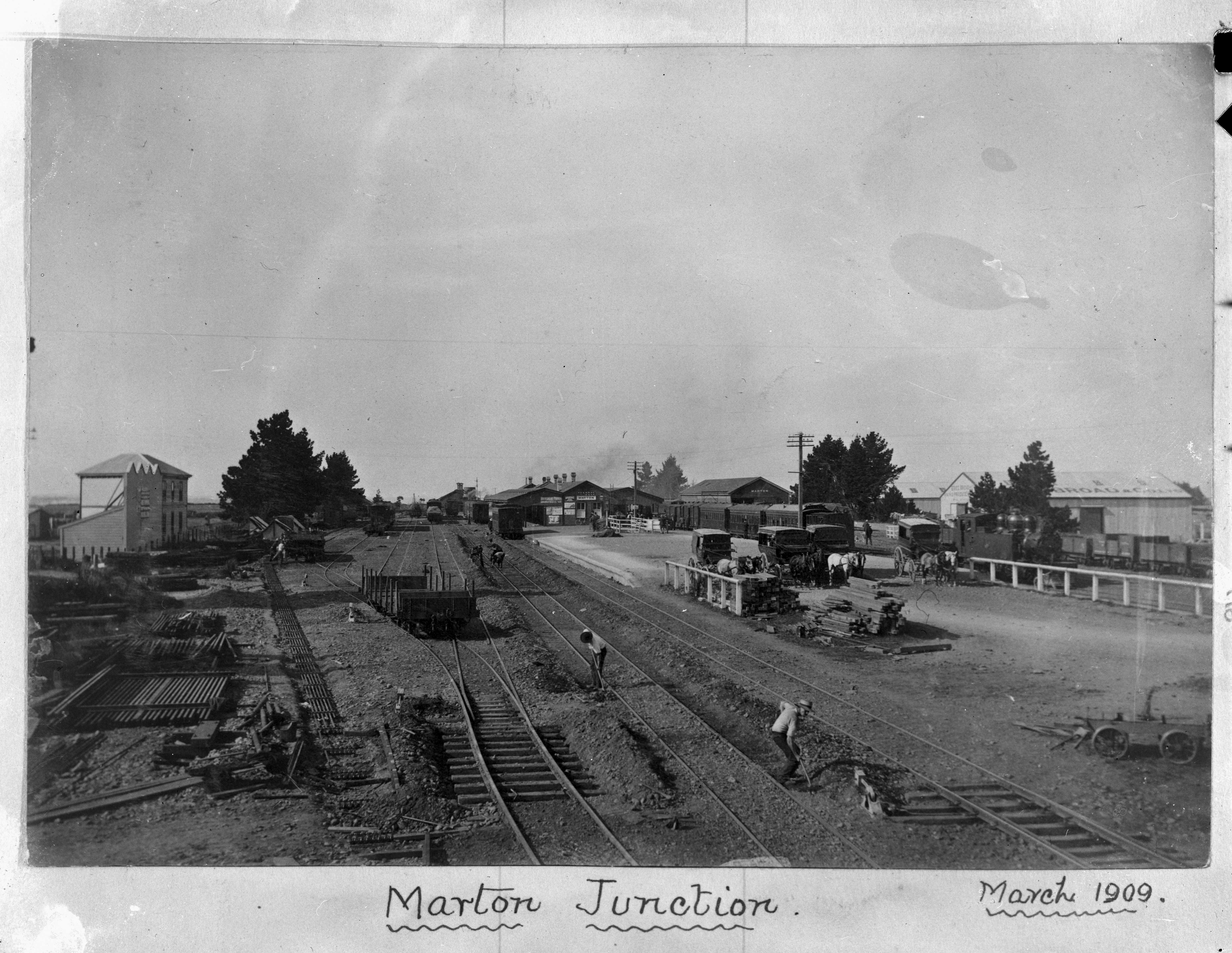 Looking along the railway line at Marton Junction with the Marton Railway Station in the centre, and the premises of Marton land agents, Brice, Broad & Co. centre right. There are several carriage, each drawn by two horses, waiting at the station, and a number of people are leaving a passenger train at the station. Taken by Albert Percy Godber in 1909. This image is a film negative taken by Godber from the print in his album Vol 110, p 33 (PA1-q-103)